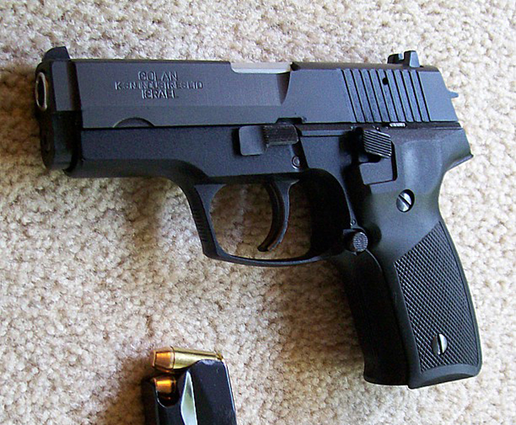 CZ 99 Compact-G